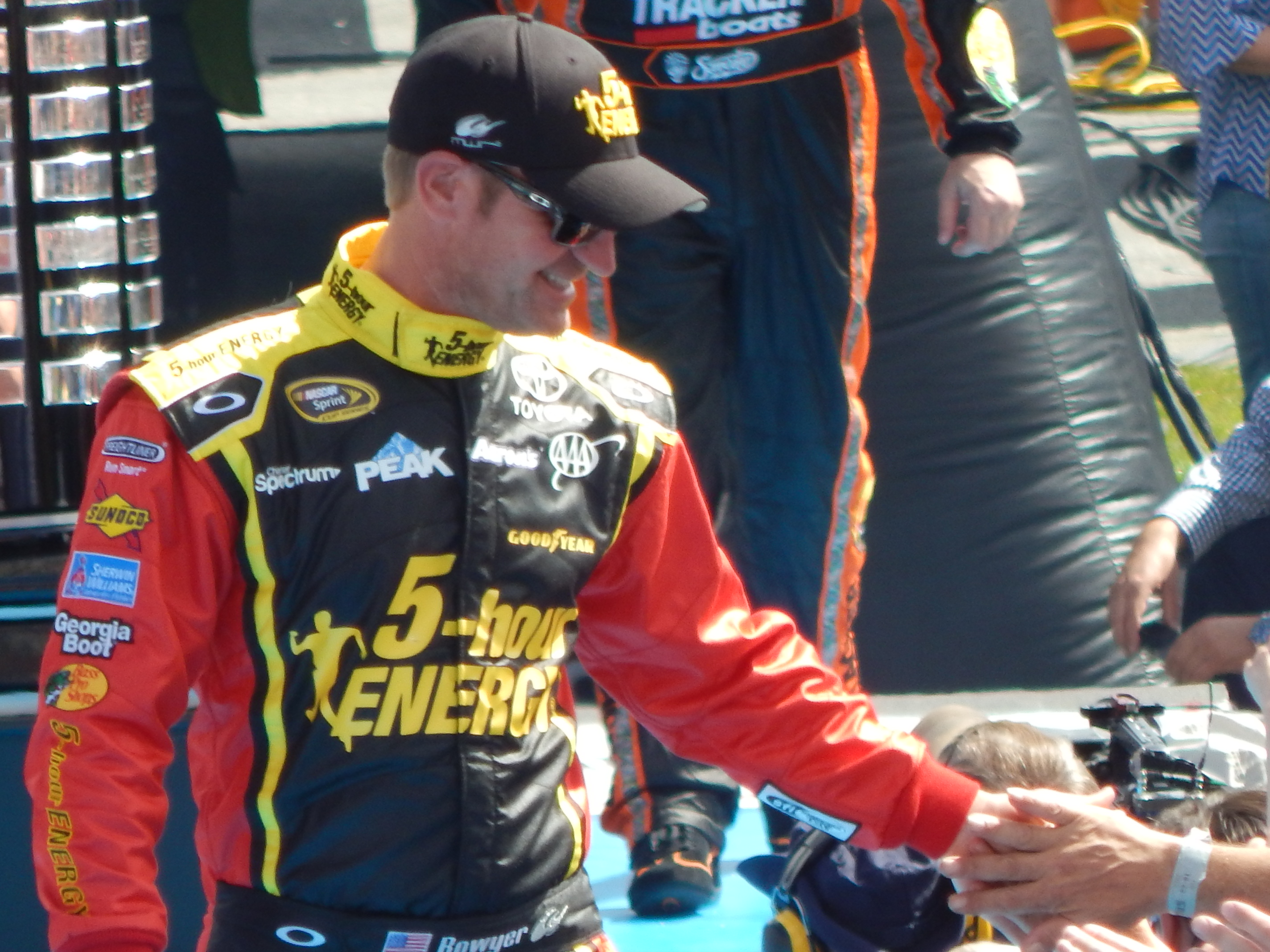 Clint Bowyer walking down the stage at driver intro's at Daytona International Speedway.